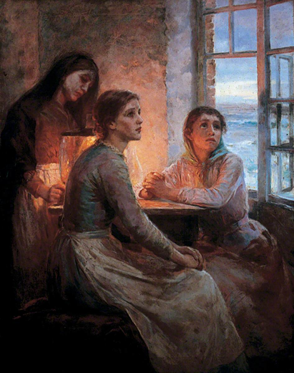 Robinson, Maria Dorothea; The Three Fishers' Wives; Leeds Museums and Galleries; after 1900 before 3 July 1920